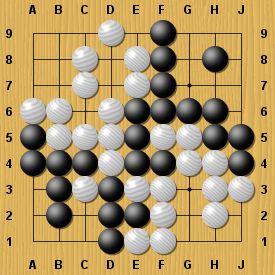 Final board position